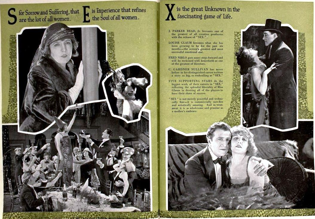 Ad for the American film Sex (1920) with Louise Glaum, Irving Cummings, and William Conklin, on pages 3040 and 3041 of the April 3, 1920 Motion Picture News.